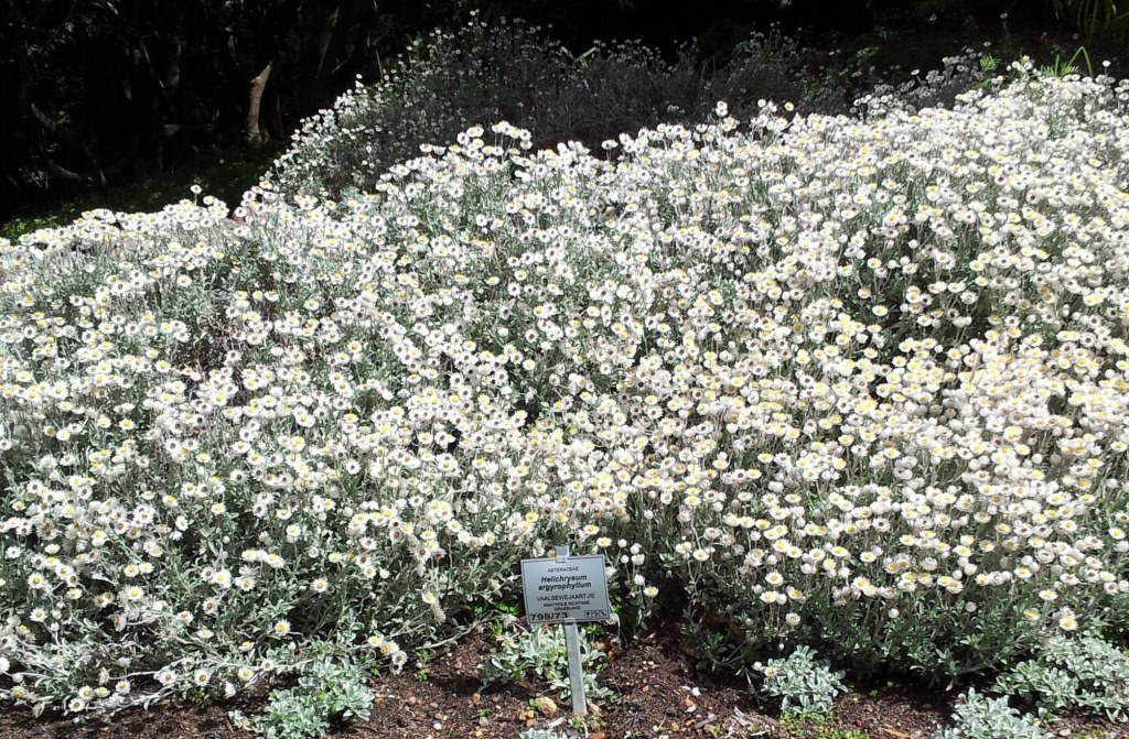 Helichrysum argyrophyllum - SA